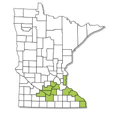 Minnesota Distribution map of the Smooth softshell turtle